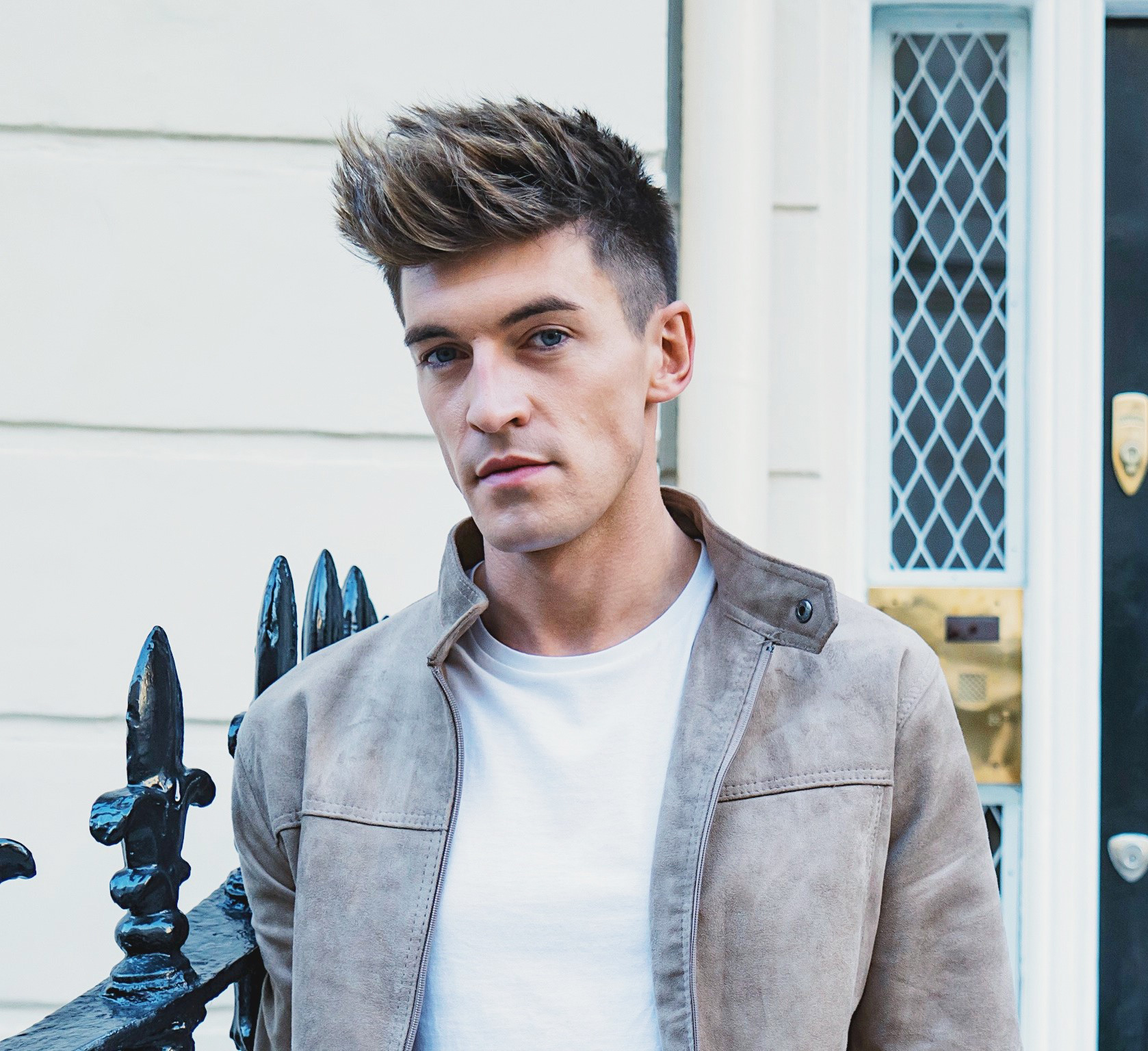 photo of Doug Armstrong (Youtuber) in September 2016